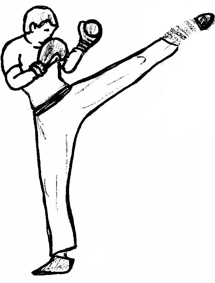 high.jpg